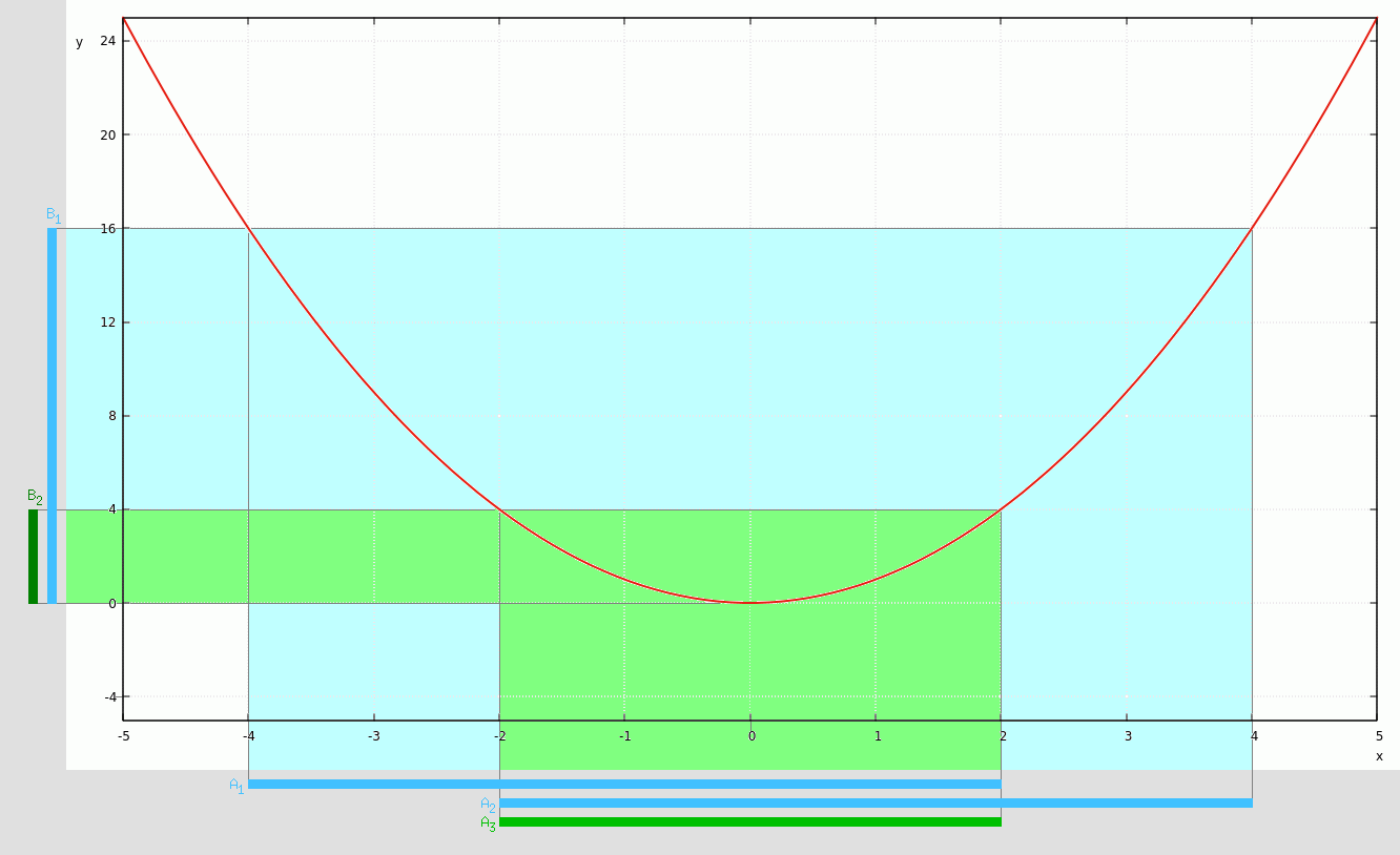 Counter-examples for function image/preimage laws that might intuitively be expected but do not hold in general. See File:Image preimage conterexamples.gif for detailled description. While f(A∩A′) ⊆ f(A) ∩ f(A′) holds generally, f(A∩A′) ⊇ f(A) ∩ f(A′) does not: e.g. f(A1∩A2) = f(A3) = B2 ⊅ B1 = B1 ∩ B1 = f(A1) ∩ f(A2).